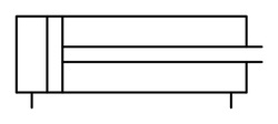 Digramatic symbol for a dual acting cylinder in a pneumatic circuit.